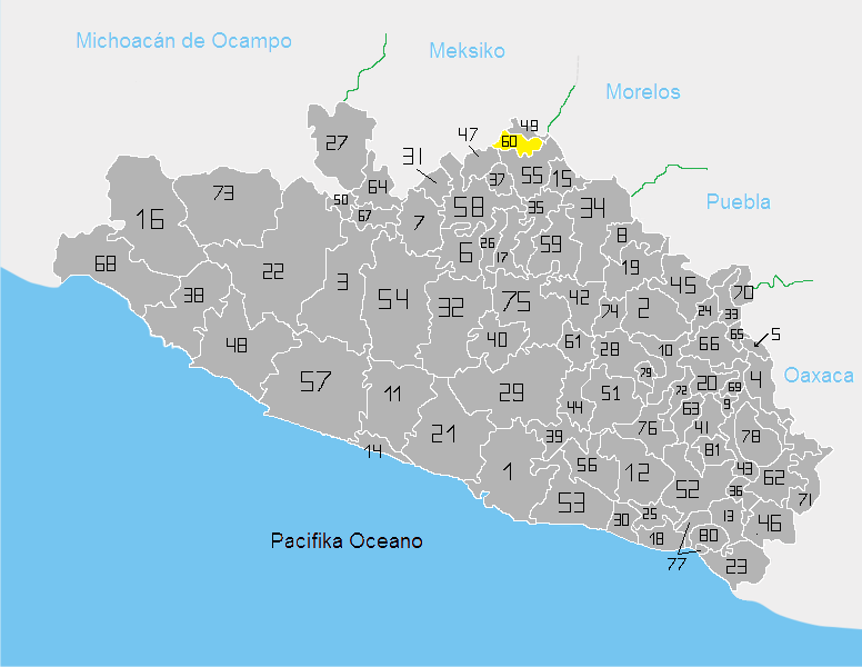 locator map Guerrero